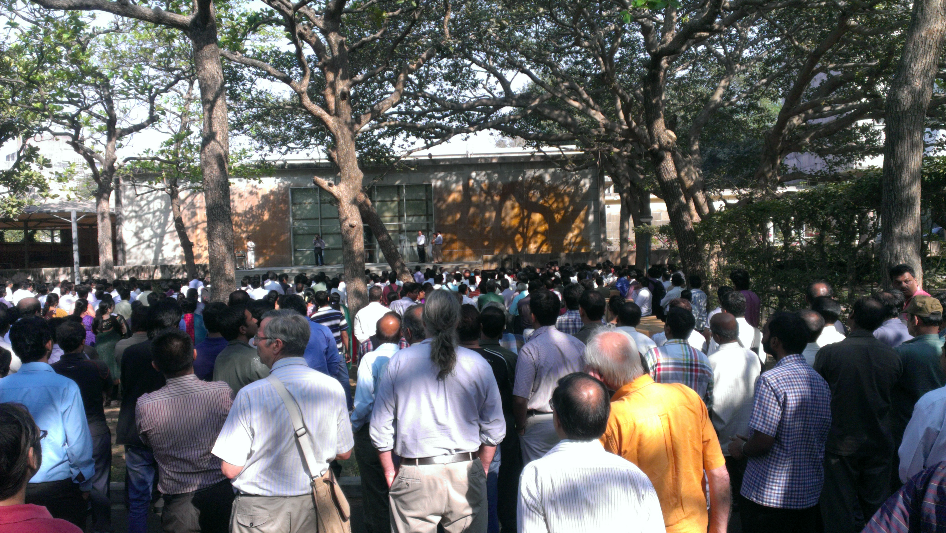 This picture is taken when director of TIFR was giving a small speech on the party which he gave to all TIFR members at the Padamshri award party.